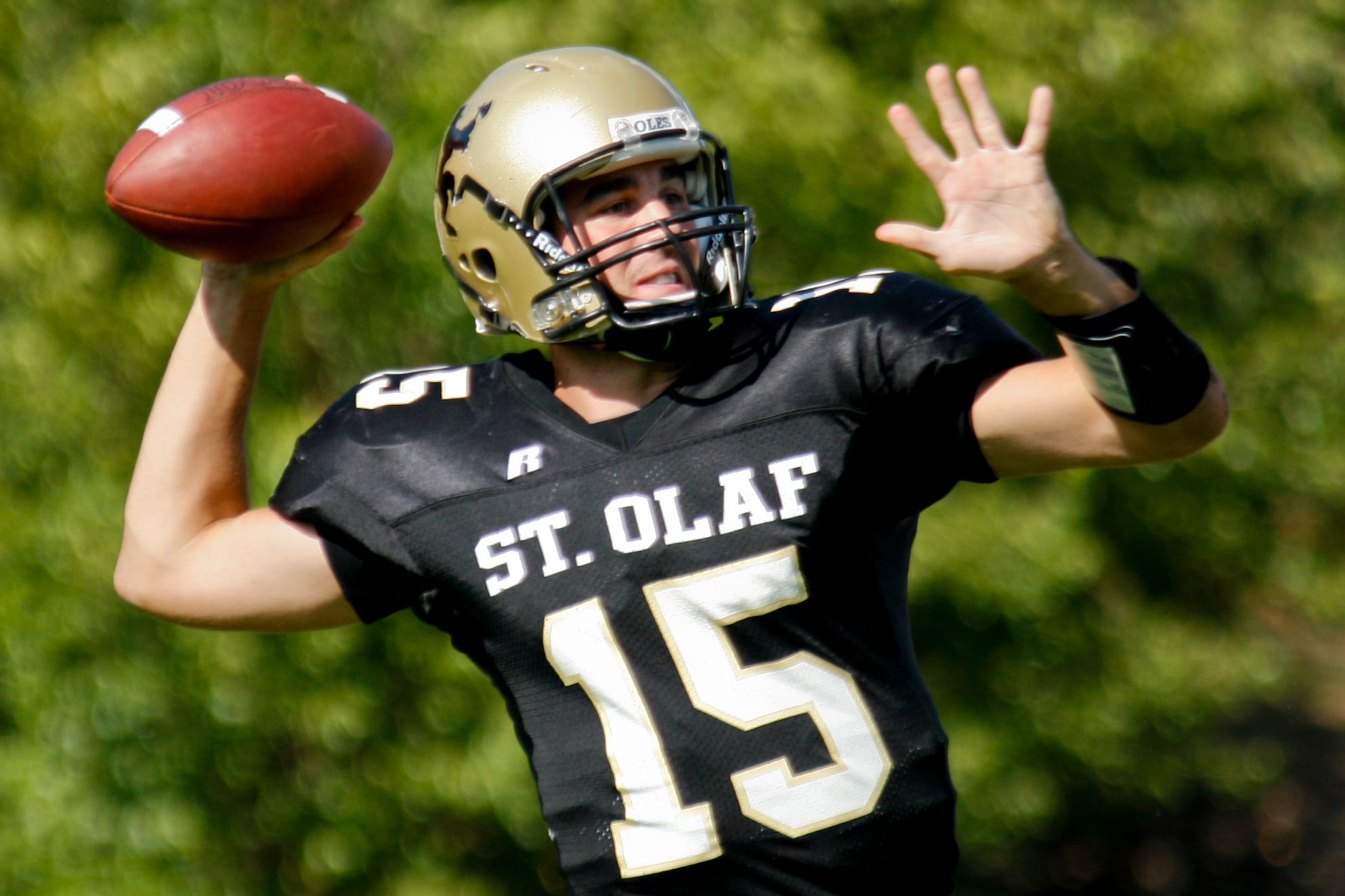 St. Olaf College quarterback John Haberman (senior) throws the ball during an American Football game between St. Olaf and Augsburg College in Northfield, Minn. on Sept. 26, 2009. St. Olaf won the game 24-14 and also celebrated the school's homecoming festivities that weekend.